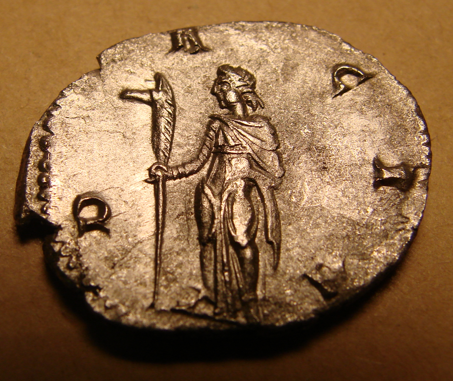 Representation of Dacia standing with draco in right hand (military standard) on a silver antoninianus of Trajan Decius. The coin is commonly dated AD 250-251. On many variants the wolf head of the standard is barely recognizable, but it is very clear on this example.